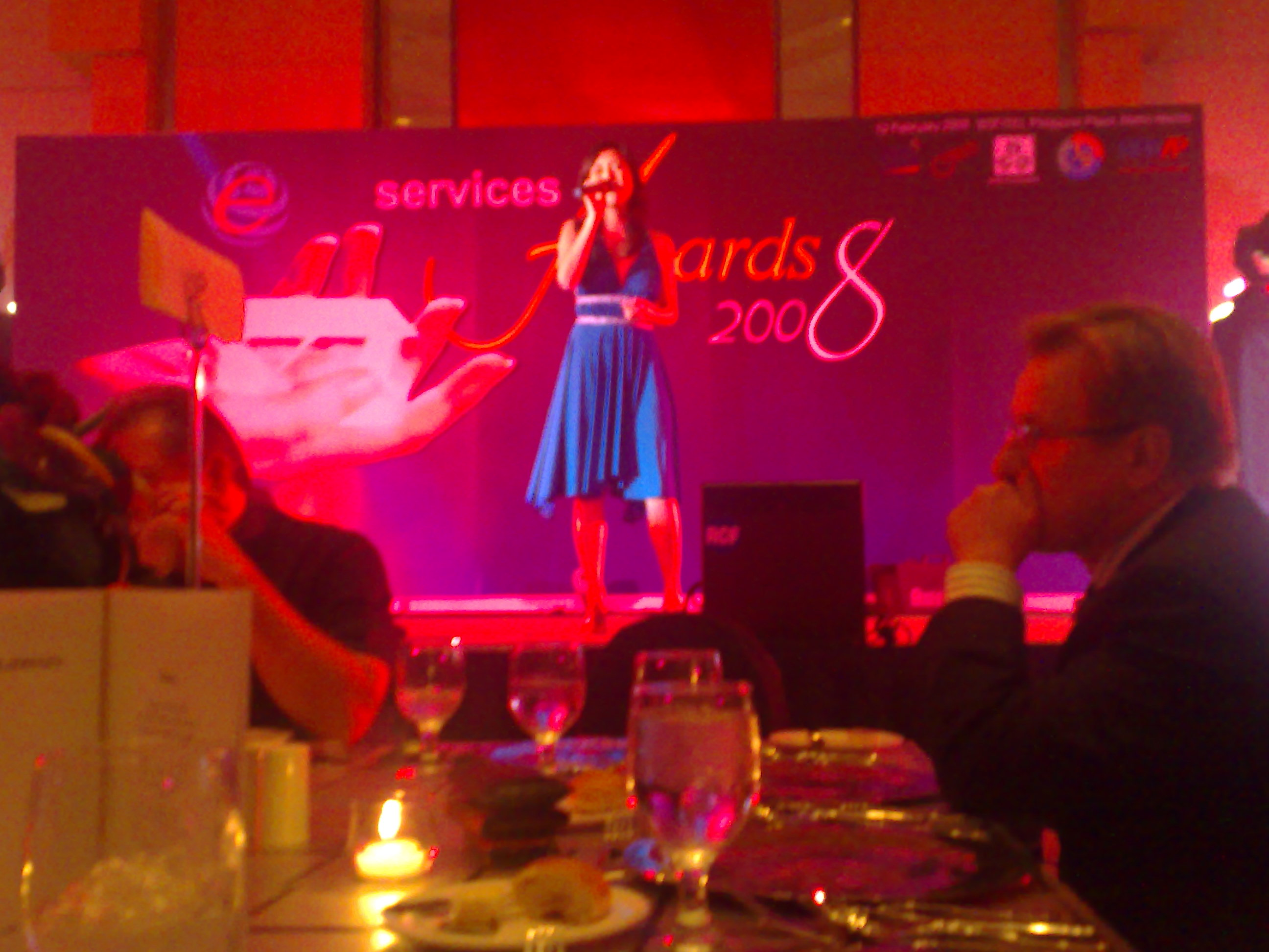 Rachel Alejandro